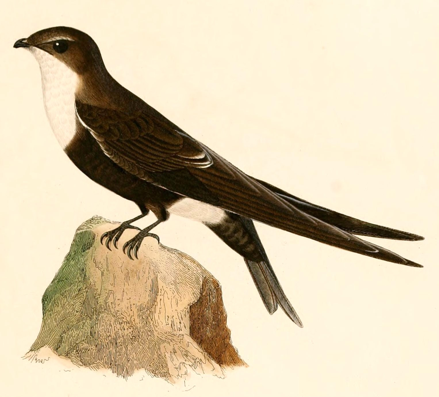 « Cypselus montivagus » = Aeronautes montivagus (White-tipped Swift)